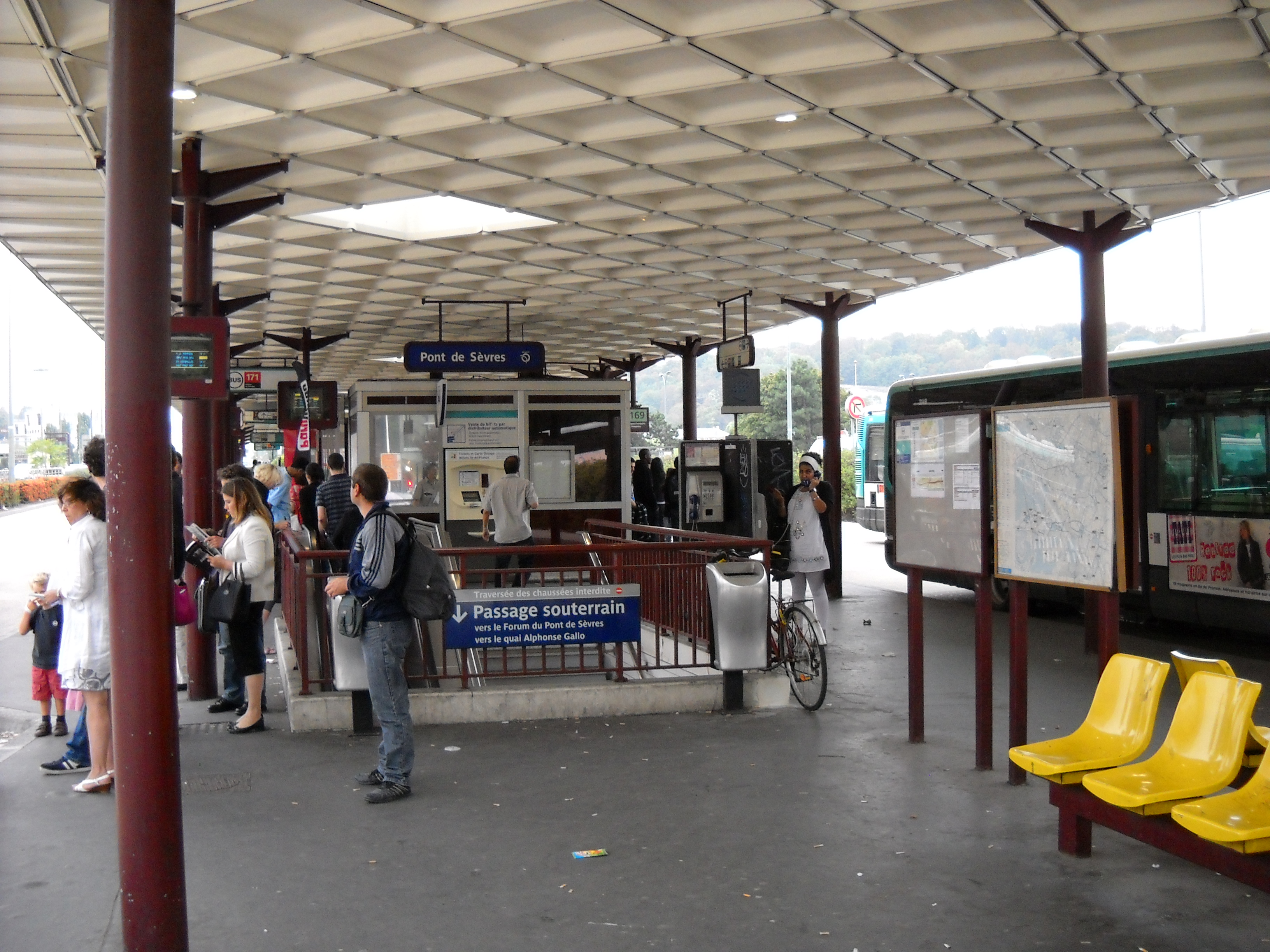 Bus station next to the Pont de Sèvres underground station, on Paris metro line 9.